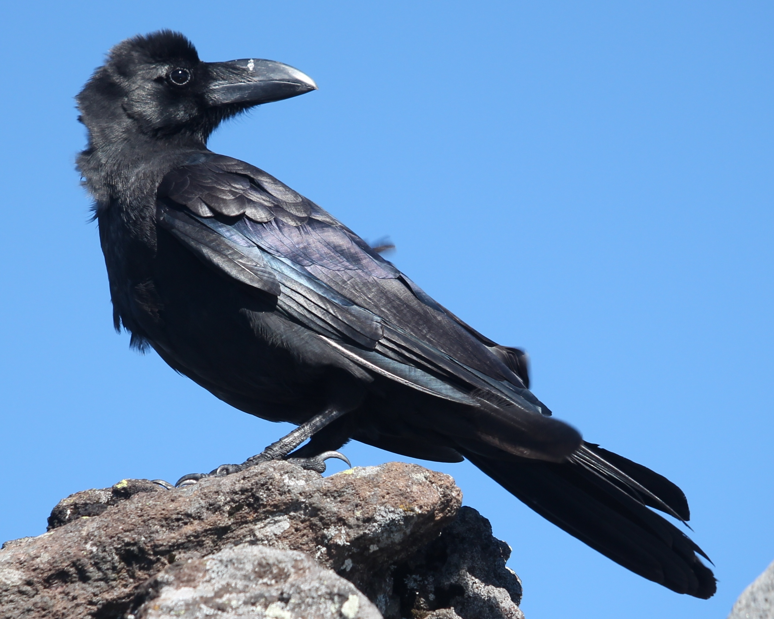 Corvus macrorhynchos japonensis in Mount Ontake, Kiso, Nagano prefecture, Japan.